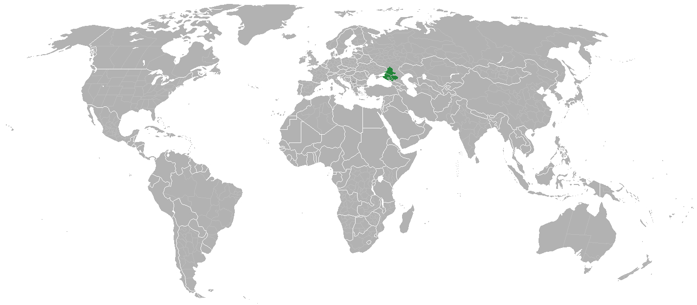 "Malynovyj Klyn"